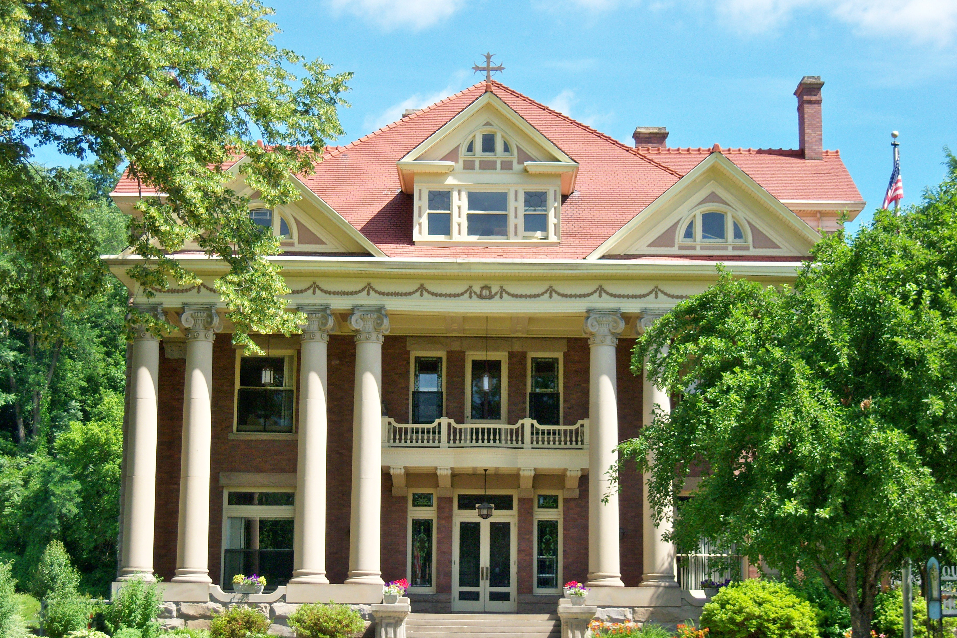 Historic Mayo Mansion in Paintsville, Kentucky.